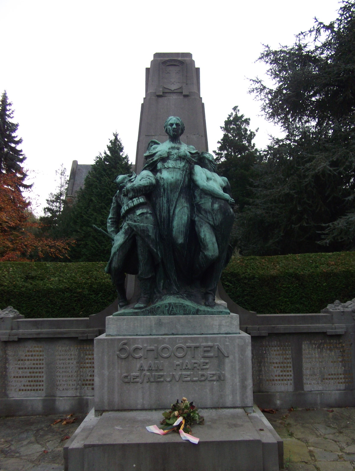 Memorial WW I in Schoten, Belgium